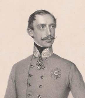 Archduke Karl Ferdinand of Austria (1818-1874)